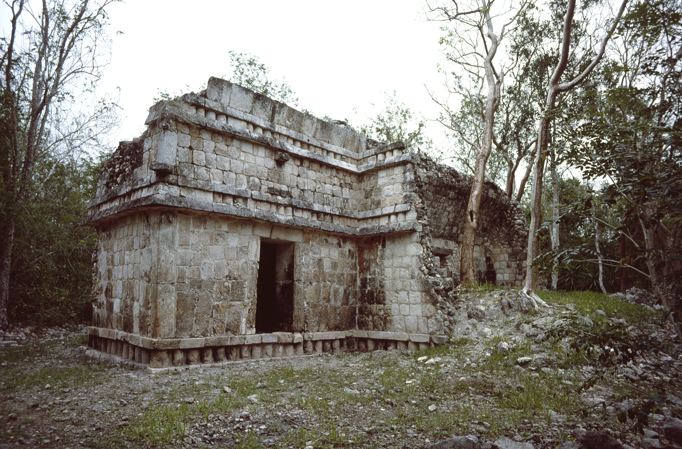 Ichpich, Campeche, Mexico: building I